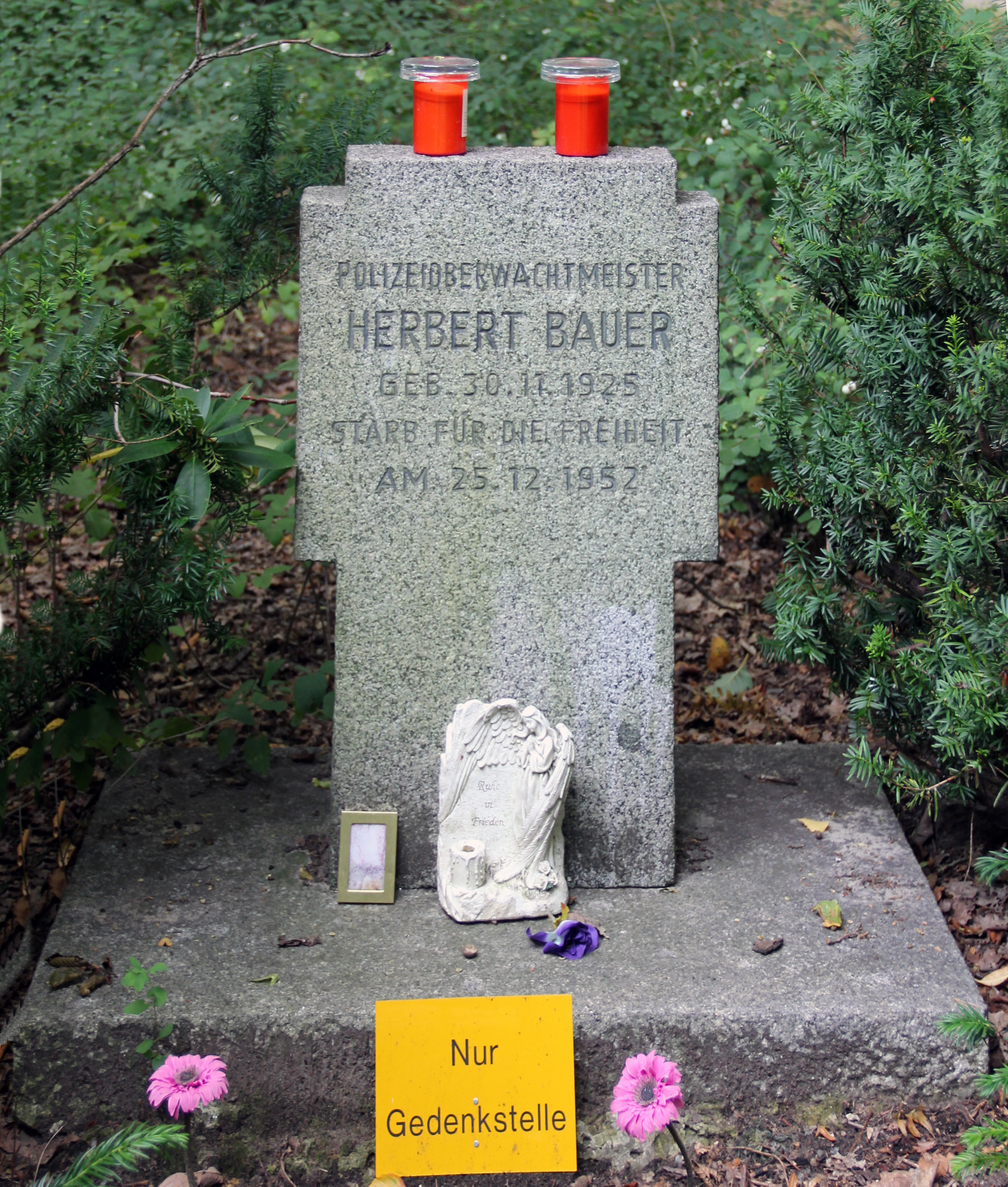 Memorial stone, Herbert Bauer, Joseph Brix–Felix Genzmer–Park, Berlin-Frohnau, Germany